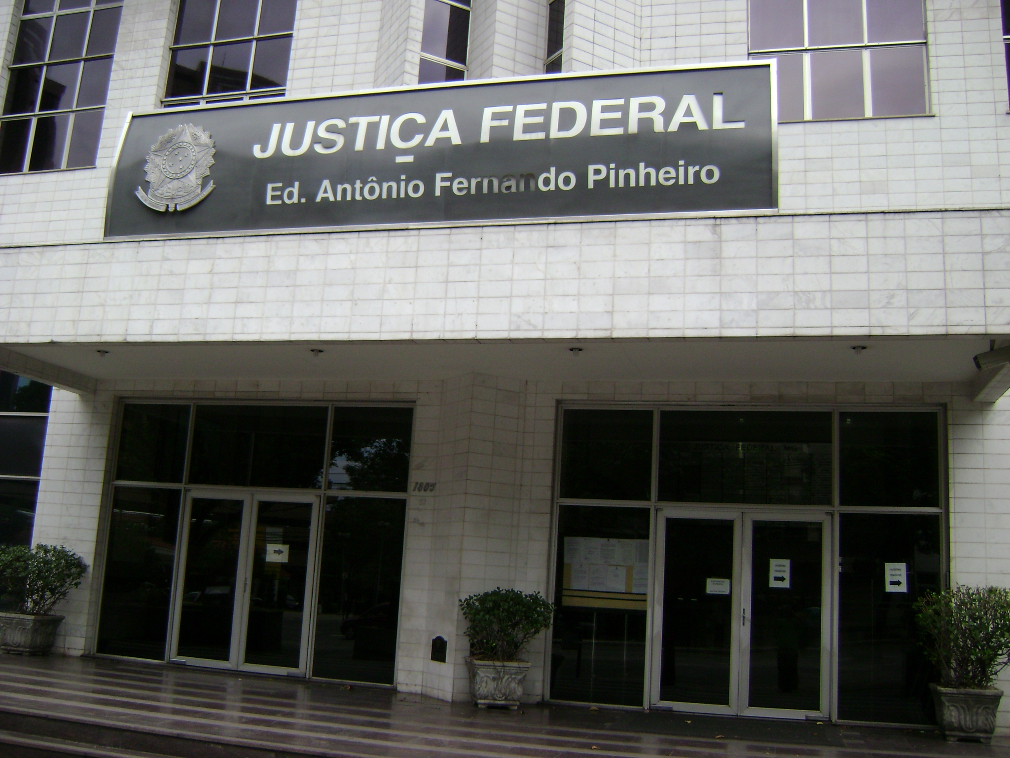 Prédio da Justiça Federal, em Belo Horizonte.